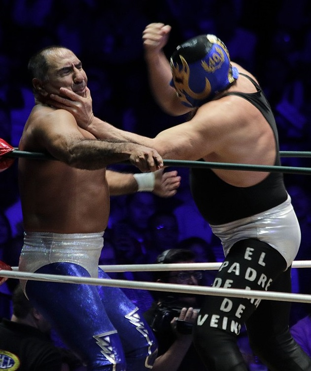 Viernes 30 de noviembre de 2018Arena México, ceremonia de develación de la placa conmemorativa por el reciente decreto de la Lucha Libre como Patrimonio Cultural Intangible de la Ciudad de México, estuvieron presentes autoridades del Consejo Mundial de Lucha Libre, y autoridades del gobierno de la CMDX, entre ellos Gabriela López Torres, coordinadora de Patrimonio Histórico Artístico y Cultural de la Secretaría de Cultura de la CDMX, además de invitados especiales.Fotografía: Tania Victoria/ Secretaría de Cultura CDMX